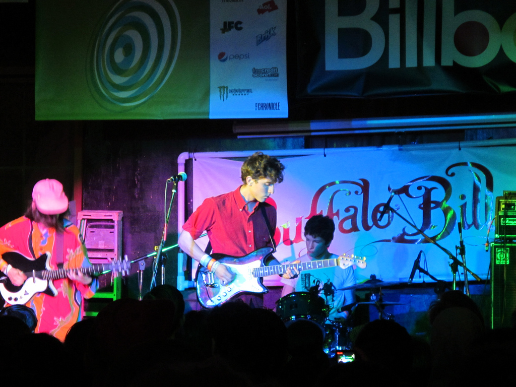 The band Beach Fossils performing at SXSW